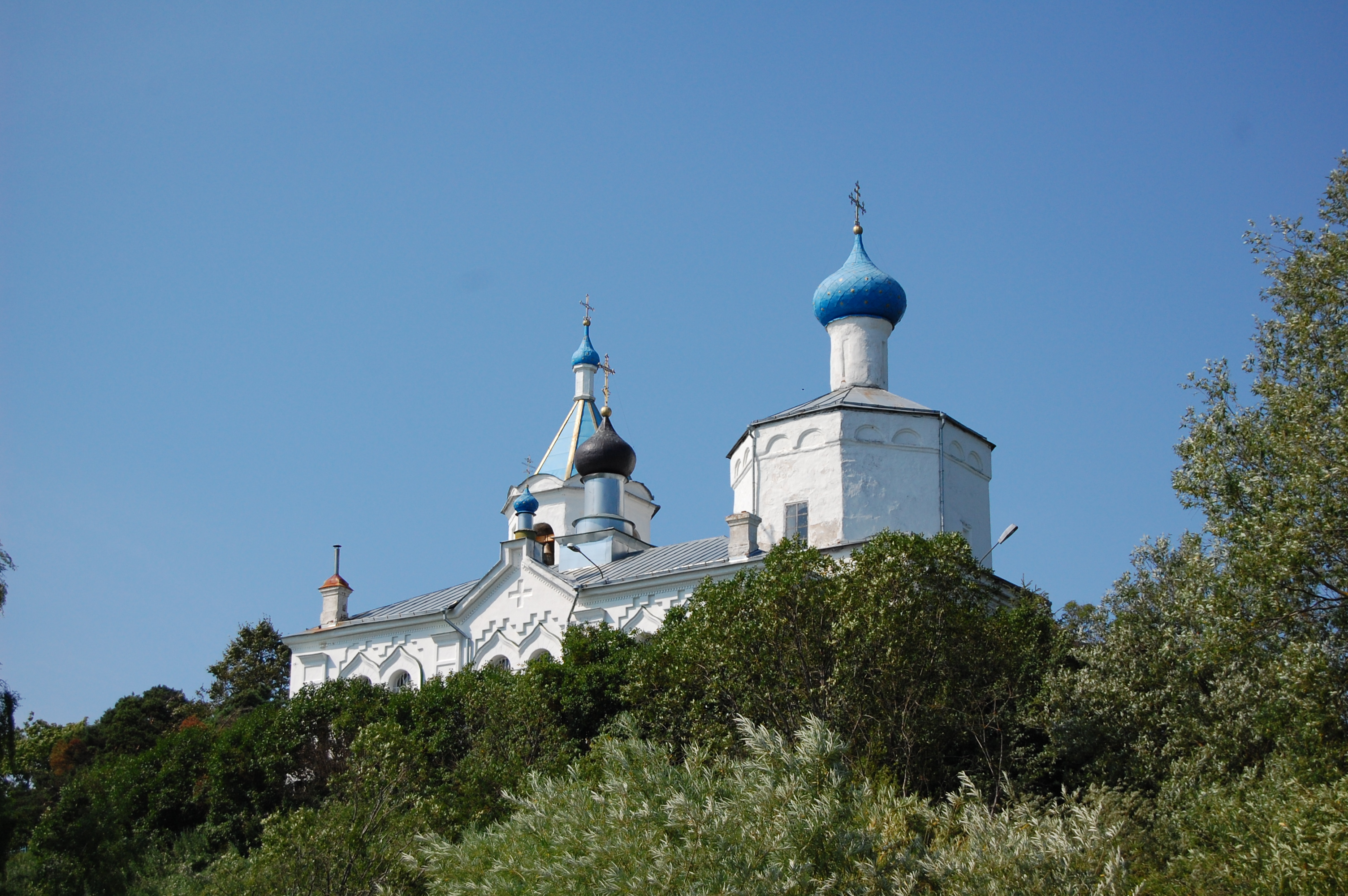 Piskovichi (Pskov Region), the view of the church.